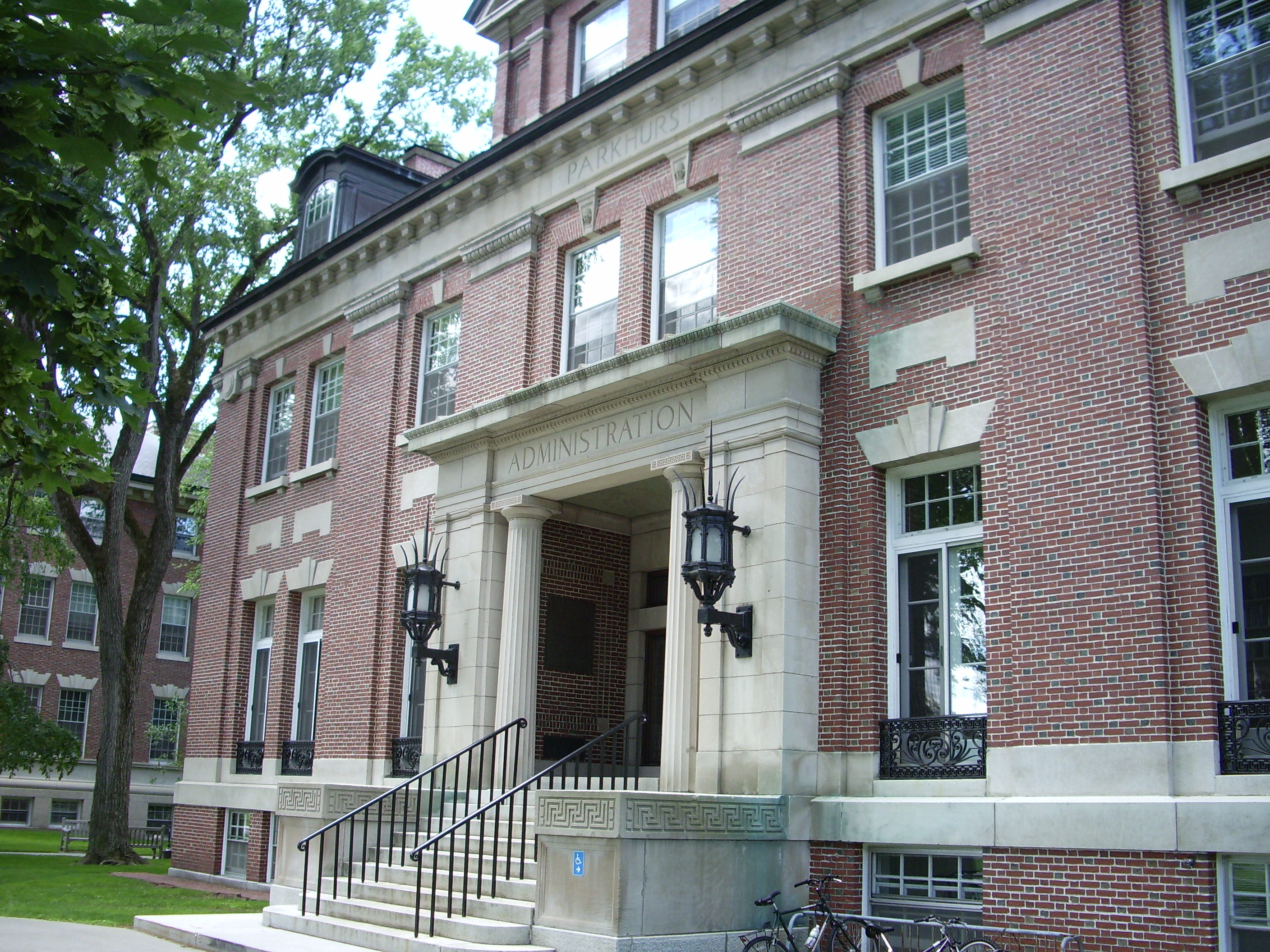 Photograph of Parkhurst Hall at the campus of Dartmouth College in Hanover, New Hampshire.